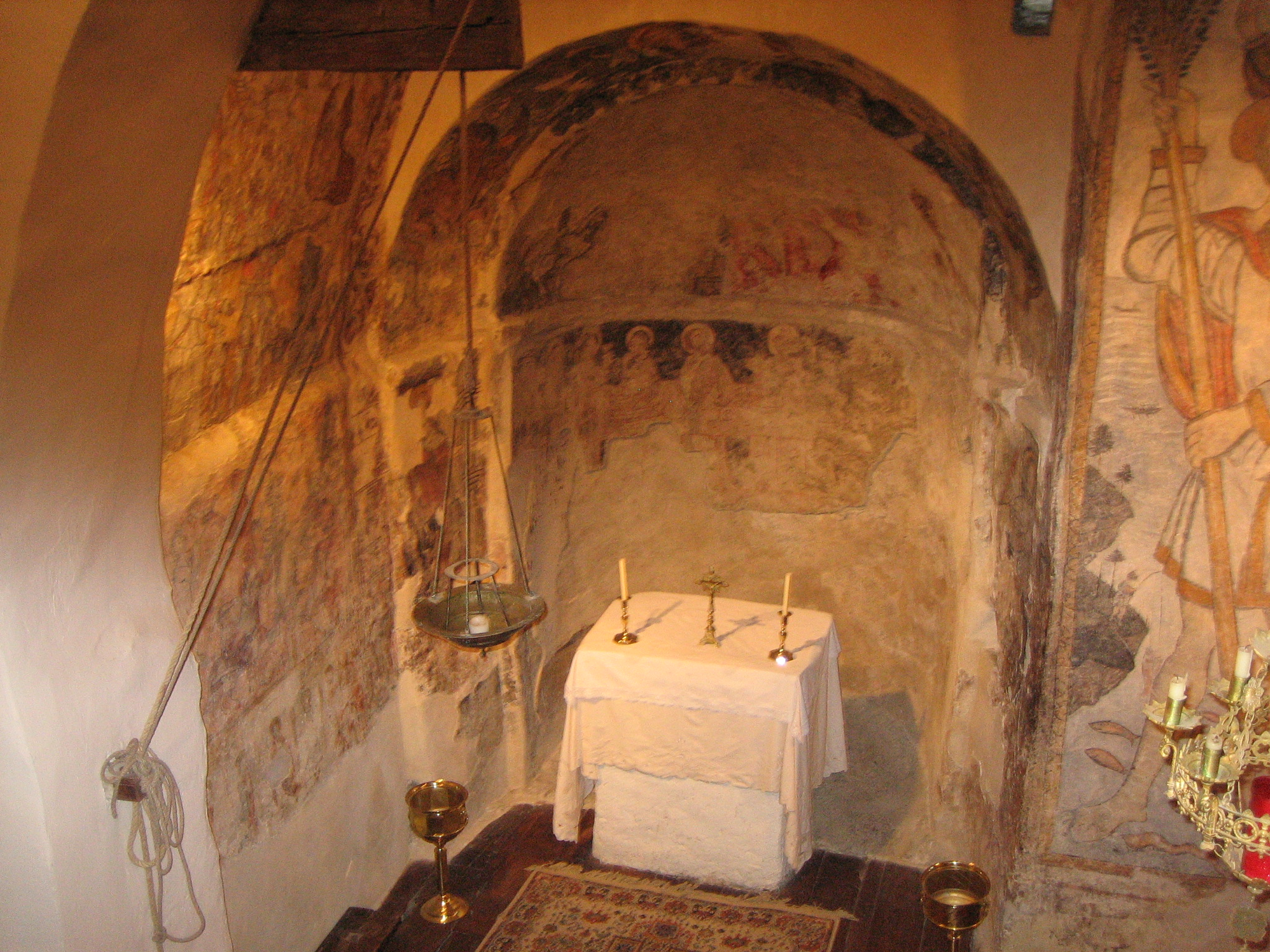 Interior, from the rood screen, of the Sant Cristòfol church in Anyós, La Massana, Andorra